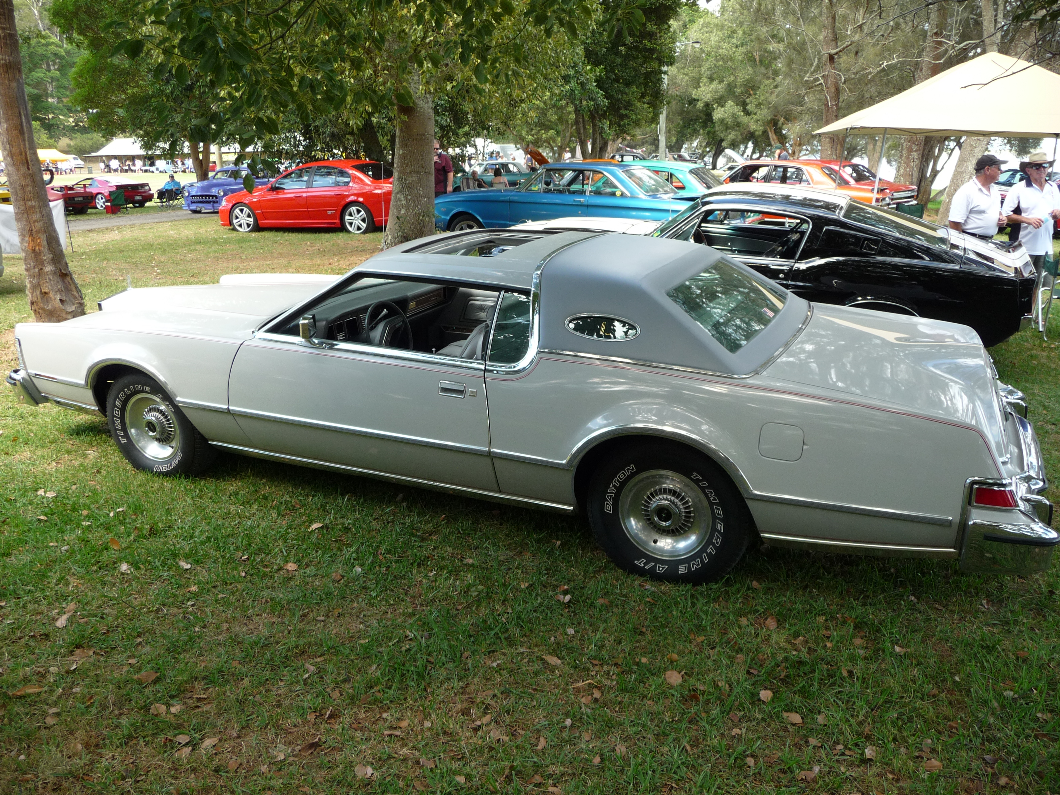 1972 Lincoln Continental Mark IV at the Motorist Appreciation Day, a combined car club show on the grounds of Historic Bargoed House, Swansea NSW.